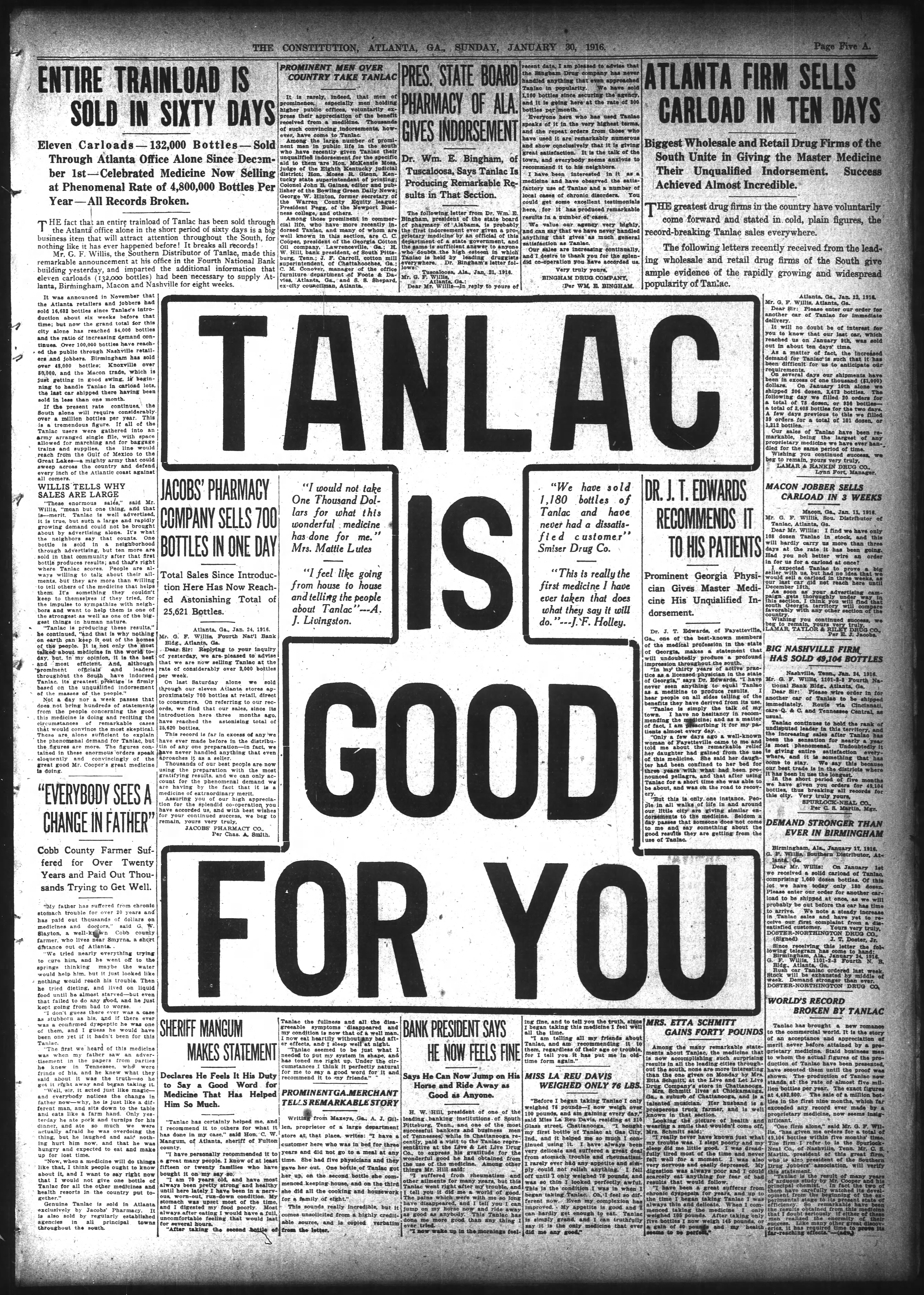 Tanlac advertisement in Atlanta Constitution 1916-01-30. Tanlac was a patent medicine made of fortified wine (17% alcohol), herbs, and a small amount of laxative.